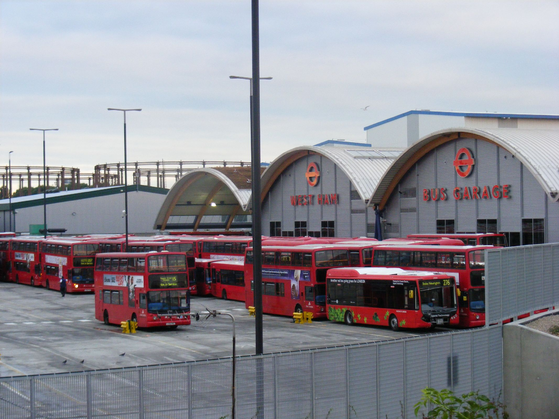 Opened officially July 2010 The windmill is off to the left, an "Off Windmill" actually.